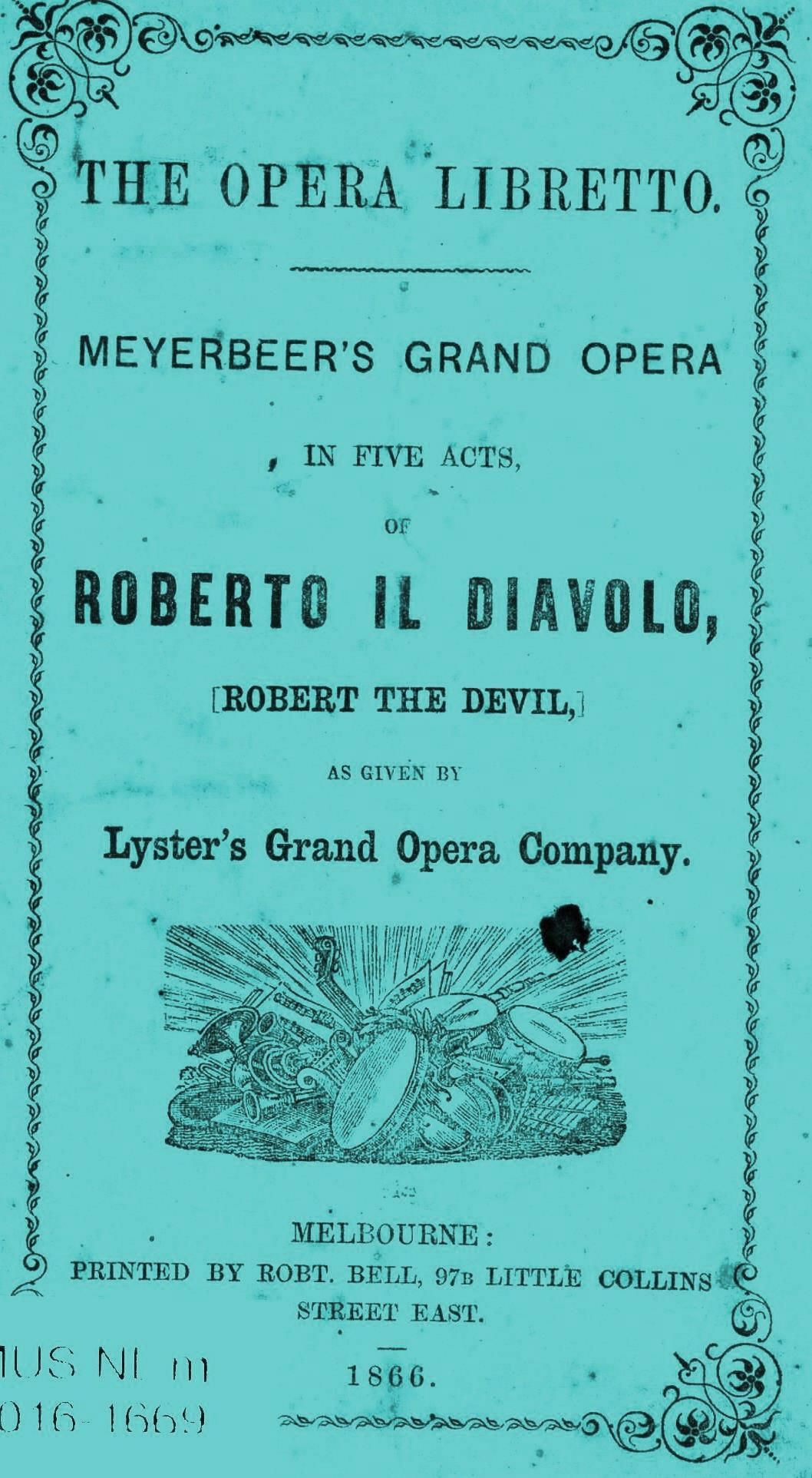 Cover of booklet containing libretto for Meyerbeer's grand opera Robert le diable, produced as Roberto il diavolo (Robert the devil) by W. Saurin Lyster's Grand Opera Company in 1866